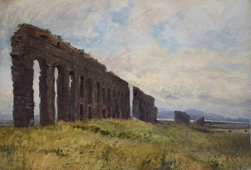 Acquedotto Claudio in the Roman Countryside by Pietro Sassi, oil on cardboard, 35 x 47 cm.